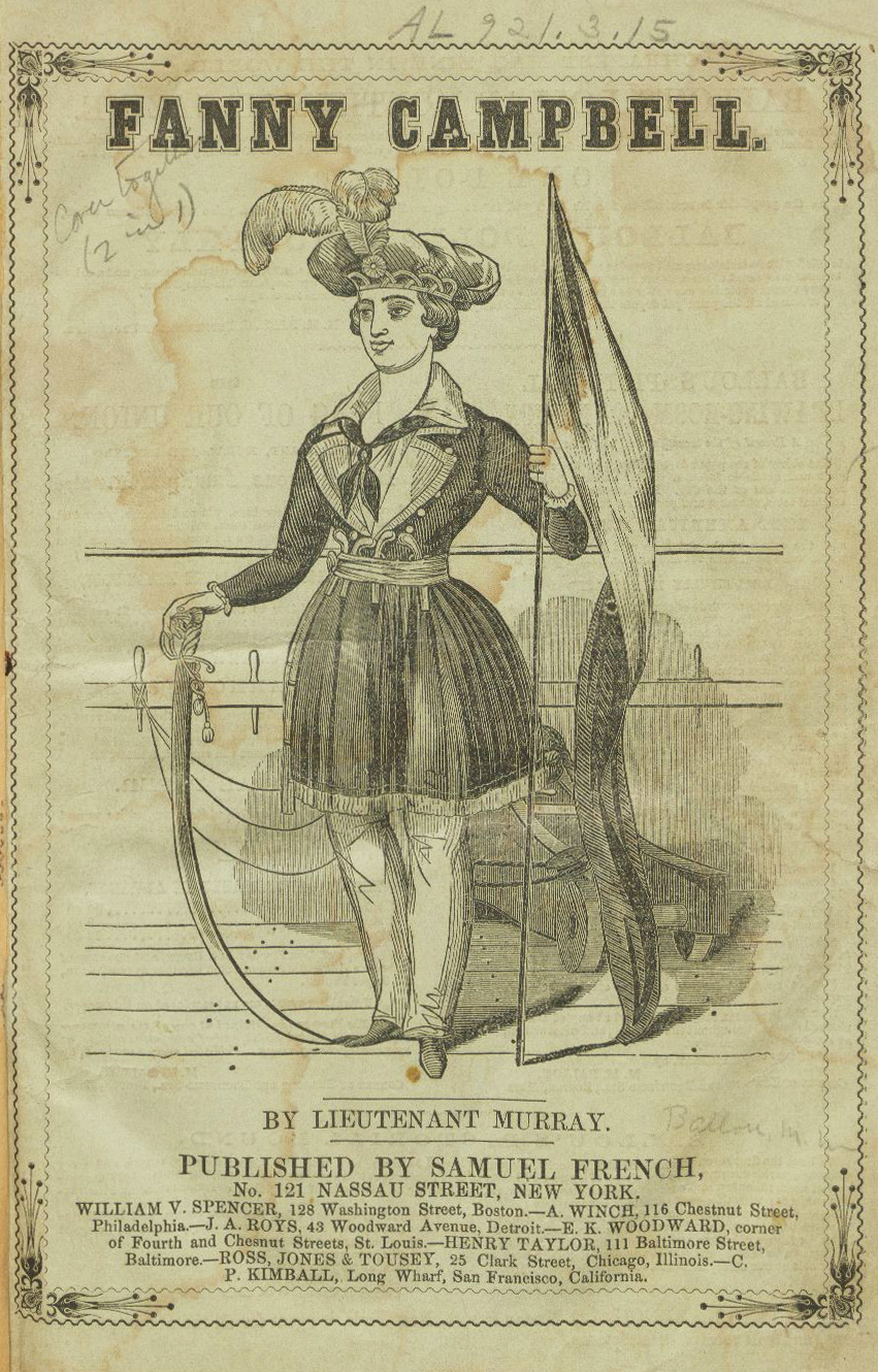 Title page: Fanny Campbell: or, The female pirate captain. A tale of the Revolution. By Lieutenant Murray [pseud. for Maturin Murray Ballou (1820-1895)]. Published: New York, Samuel French, 1844. AL 921.3.15, Houghton Library, Harvard University